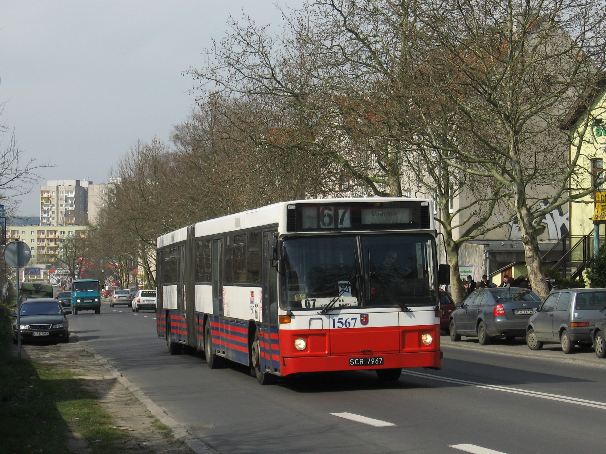 Volvo B10MA bus (#1567, reg. SCR 7967) owned by SPA Klonowica in Szczecin, Poland. Built 1994.